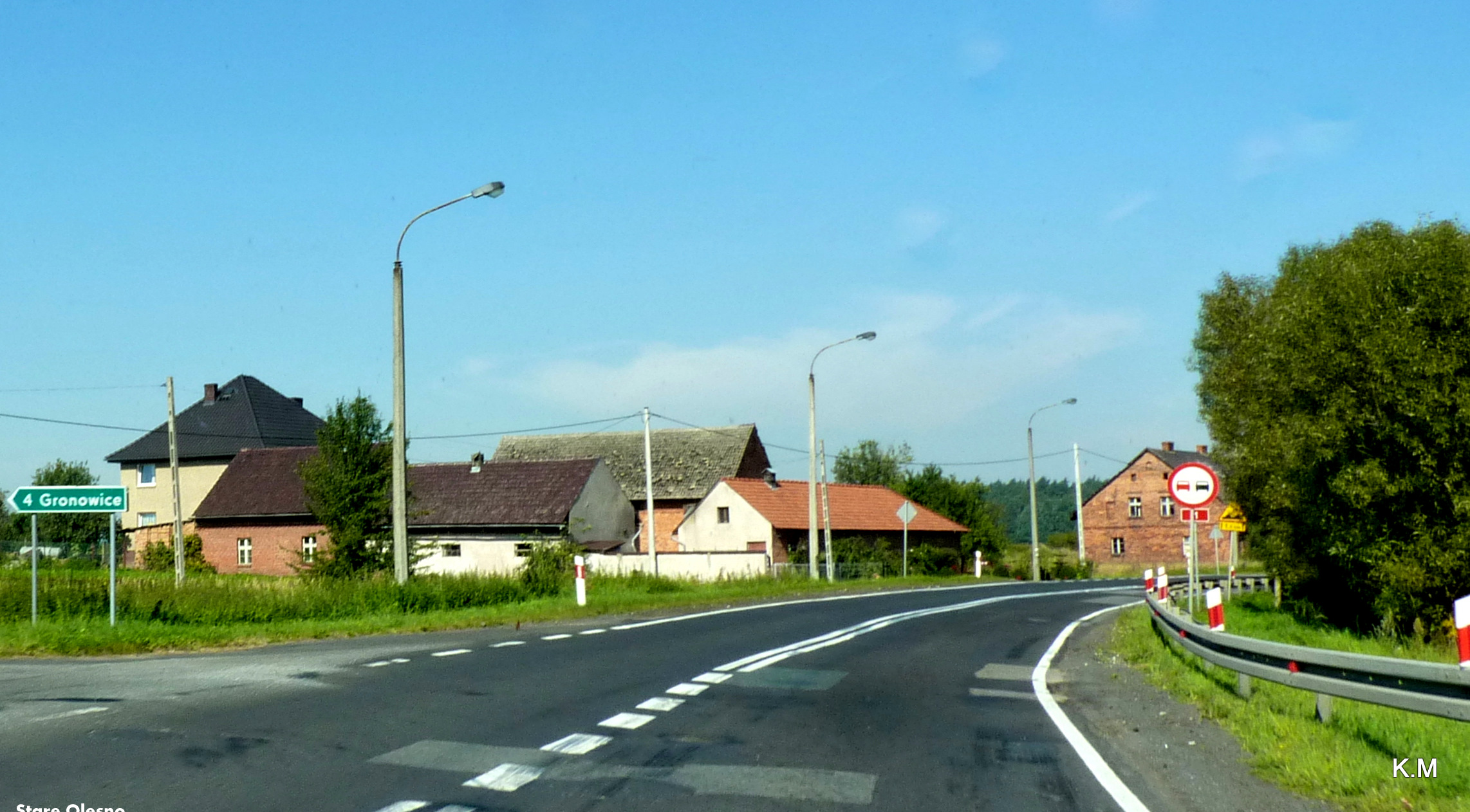 Stare Olesno